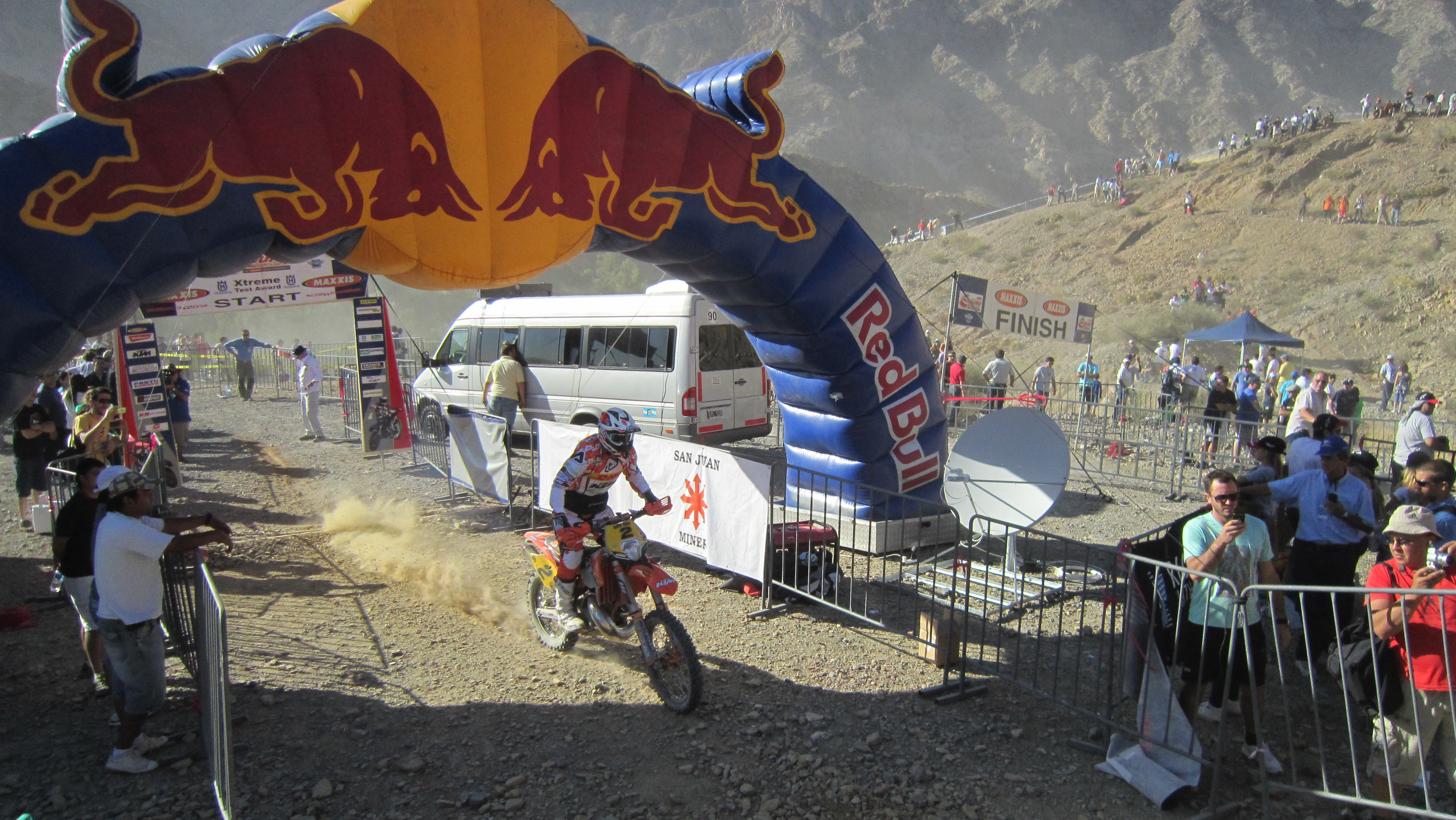 Cristophe Nambotin (France) starting the "Extreme Test" on March 31st, 2012 in San Juan, Argentina